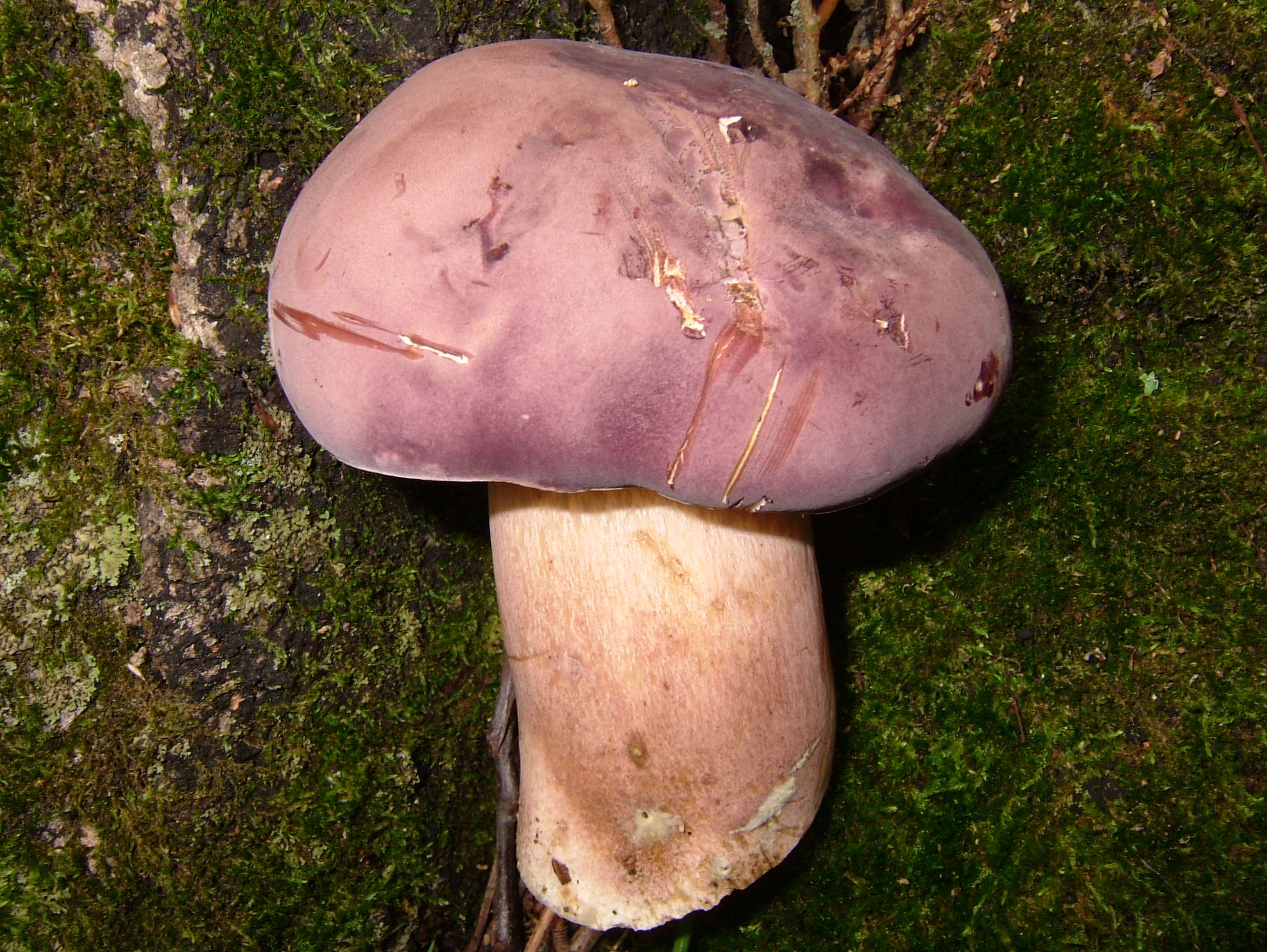 Xanthoconium purpureum (Snell & E.A. Dick) Location: Washington Crossing State Park, Mercer Co., New Jersey, USA Notes: Looks a bit like a young T. rubrobruneus from the top (see the first 2 pics), but the pores are yellowish; this feature alone removes it from that genus. NB: this collection was discovered in the same park (but different spot) and on the same day/year as that of observation #26489, so both could be the same thing.